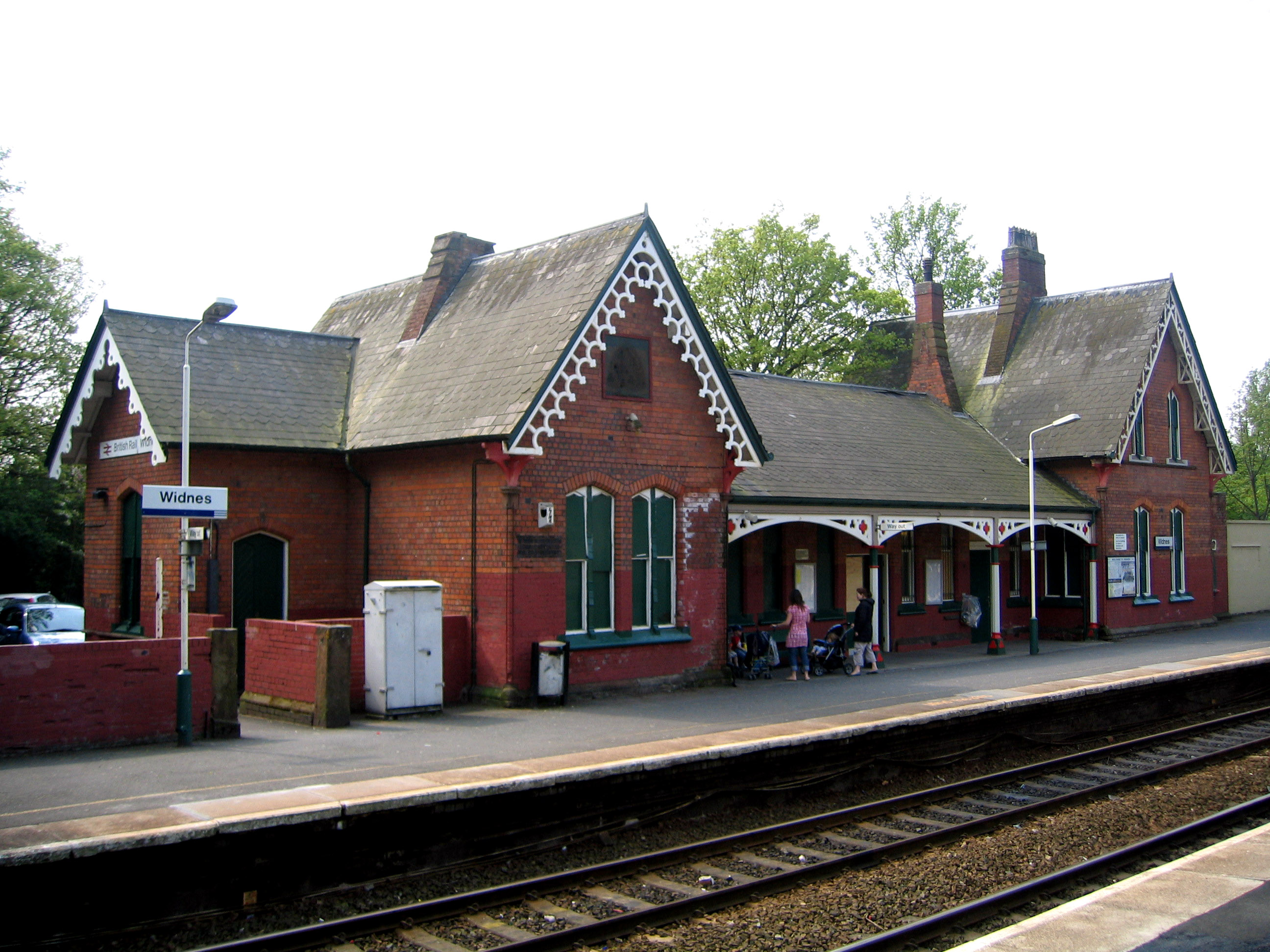 Widnes railway station on the southern branch of the Liverpool-Manchester line